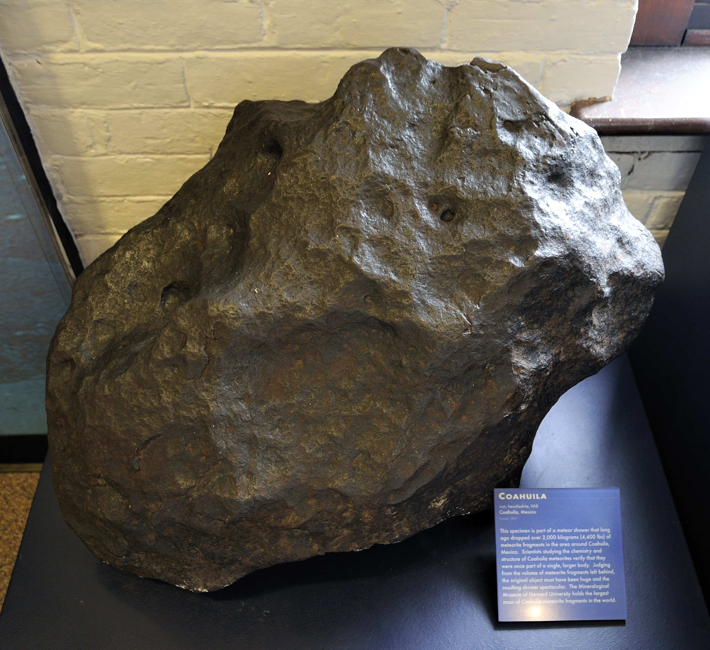 Coahuila meteorite, Harvard Museum of Natural History. Text: "Iron, hexahydrite, IIAB Coahuila, Mexico Found 1837 This specimen is part of a meteor shower that long ago dropped over 2,000 kilograms (4,400 lbs) of meteorite fragments in the area around Coahuila, Mexico. Scientists studying the chemistry and structure of Coahuila meteorites, verify that they were once part of a single, larger body. Judging from the volume of meteorite fragments left behind, the original object must have been huge and the resulting shower spectacular. The Mineralogical Museum of Harvard University holds the largest mass of Coahuila meteorite fragments in the world"